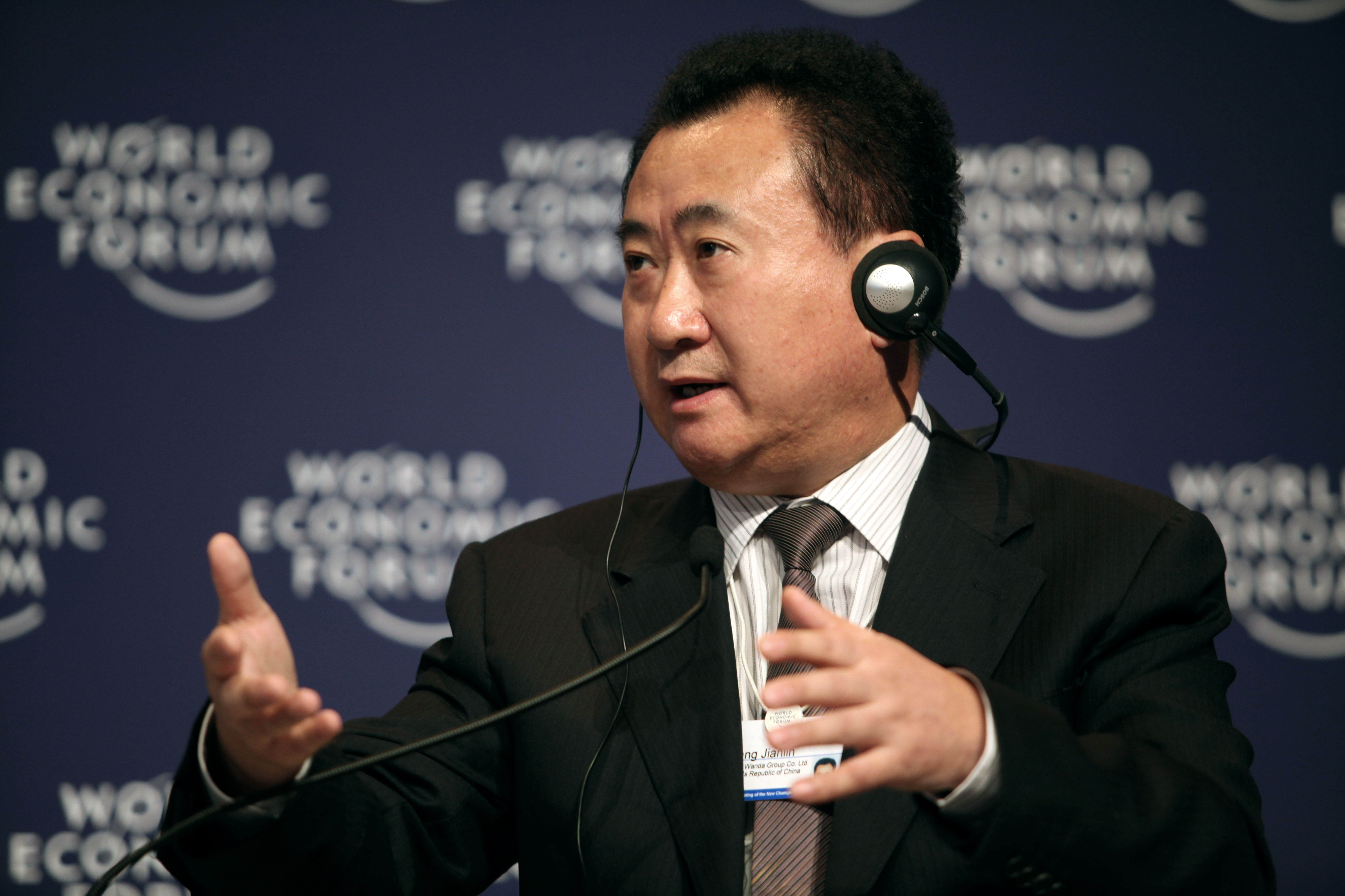 DALIAN/CHINA, 12SEPT09 - Wang Jianlin, Chairman and President, Dalian Wanda Group, speaks during the Success versus Survival in a Global Downturn session at The World Economic Forum Annual Meeting of the New Champions in Dalian, China 10-12 September 2009. Copyright World Economic Forum ( /Natalie Behring)